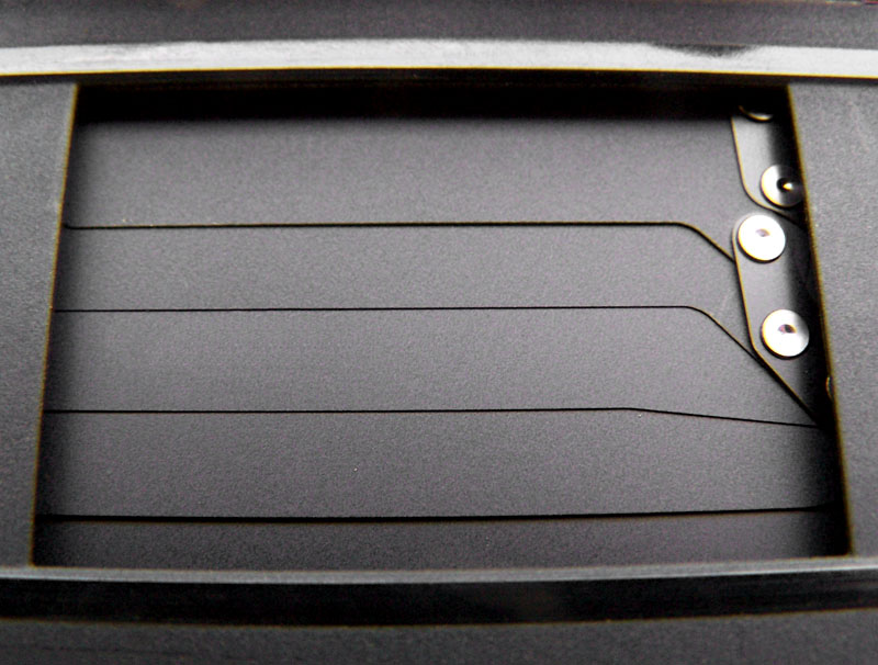 Focal plane shutter